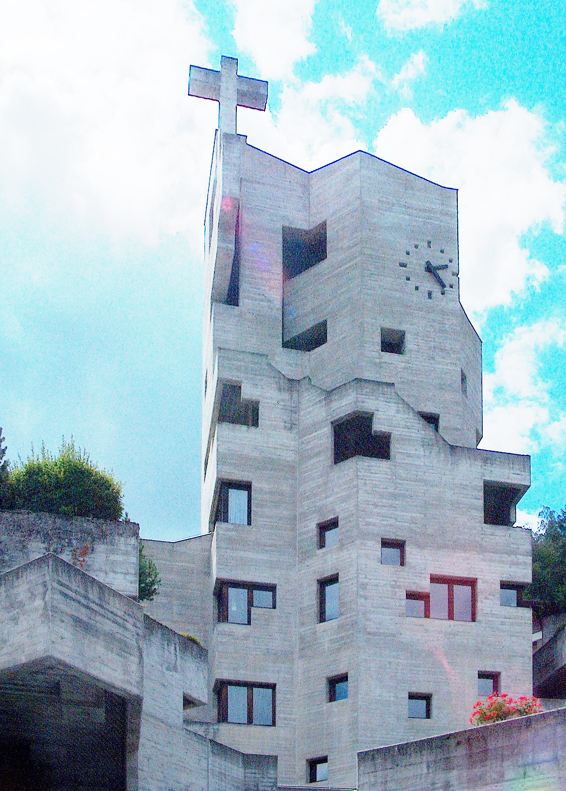 church of Hérémence